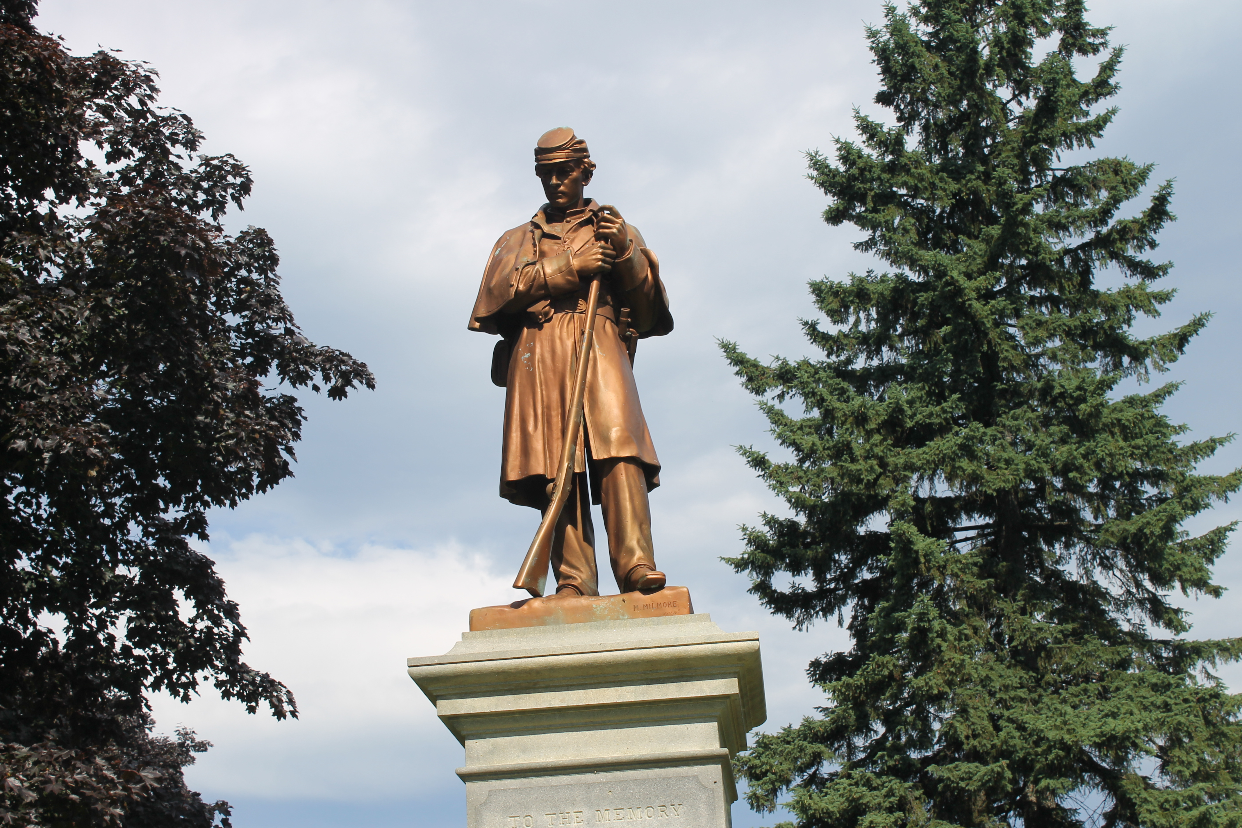 I took photo of Union Civil War monument in Waterville, ME, with Canon camera.